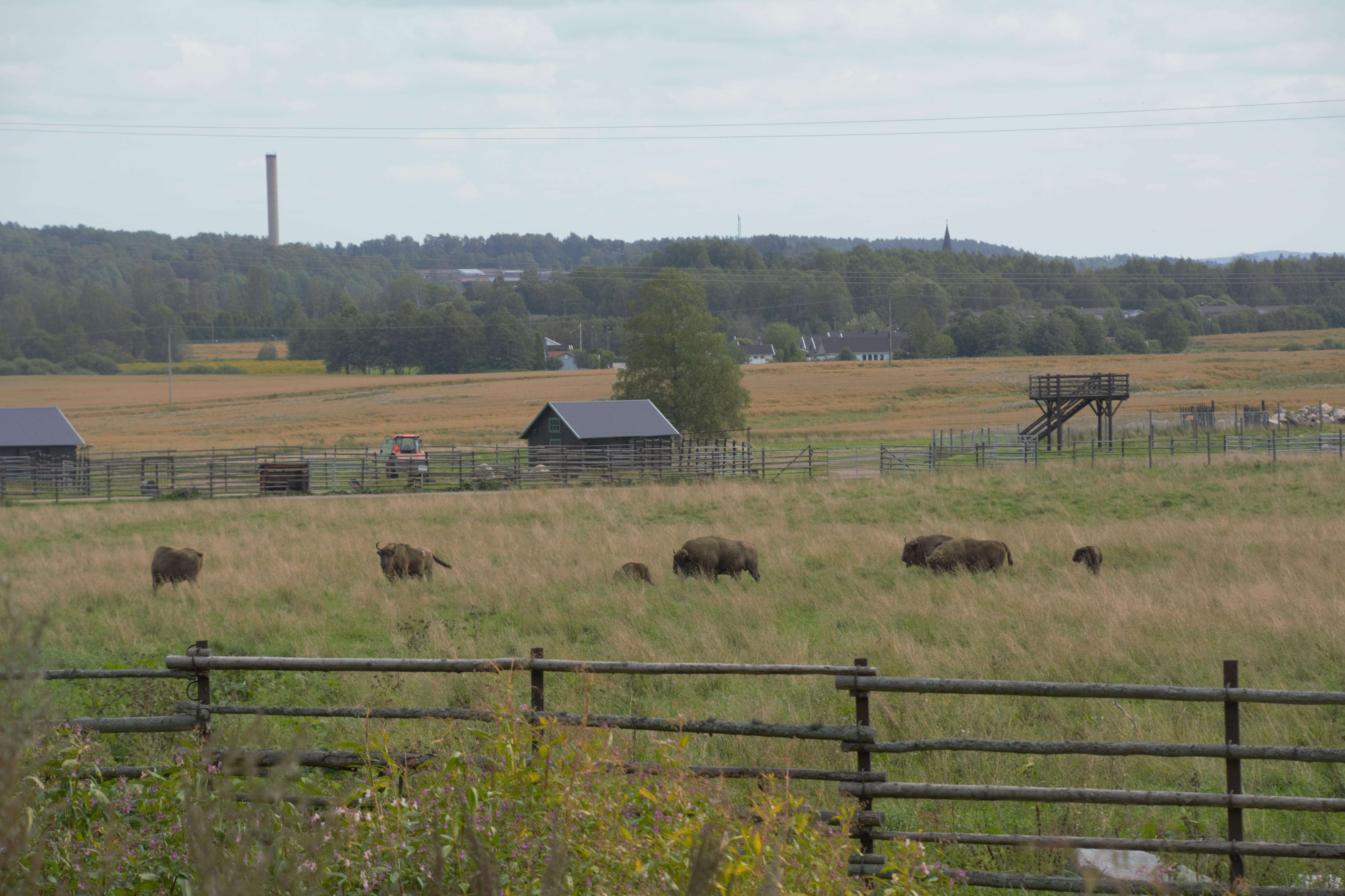 Avesta visentpark with the town of Avesta in the backkground